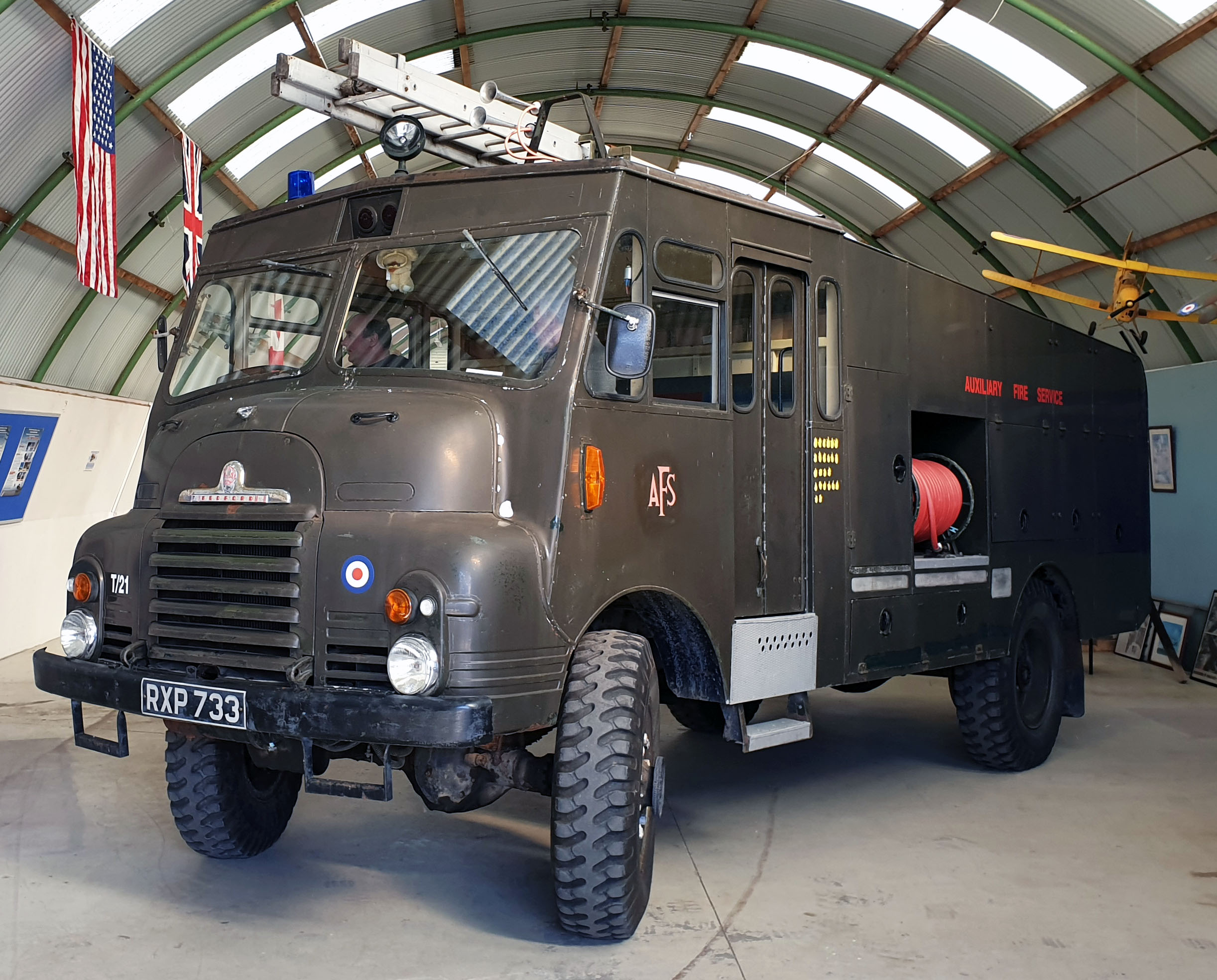 The Green Goddess is the colloquial name for the Bedford RLHZ Self Propelled Pump, a fire engine used originally by the Auxiliary Fire Service (AFS) in the UK. It was latterly held in reserve by the Home Office to be used for exceptional events such as the fireman's strike in 1977 and 2002. They were eventually retired in 2004.